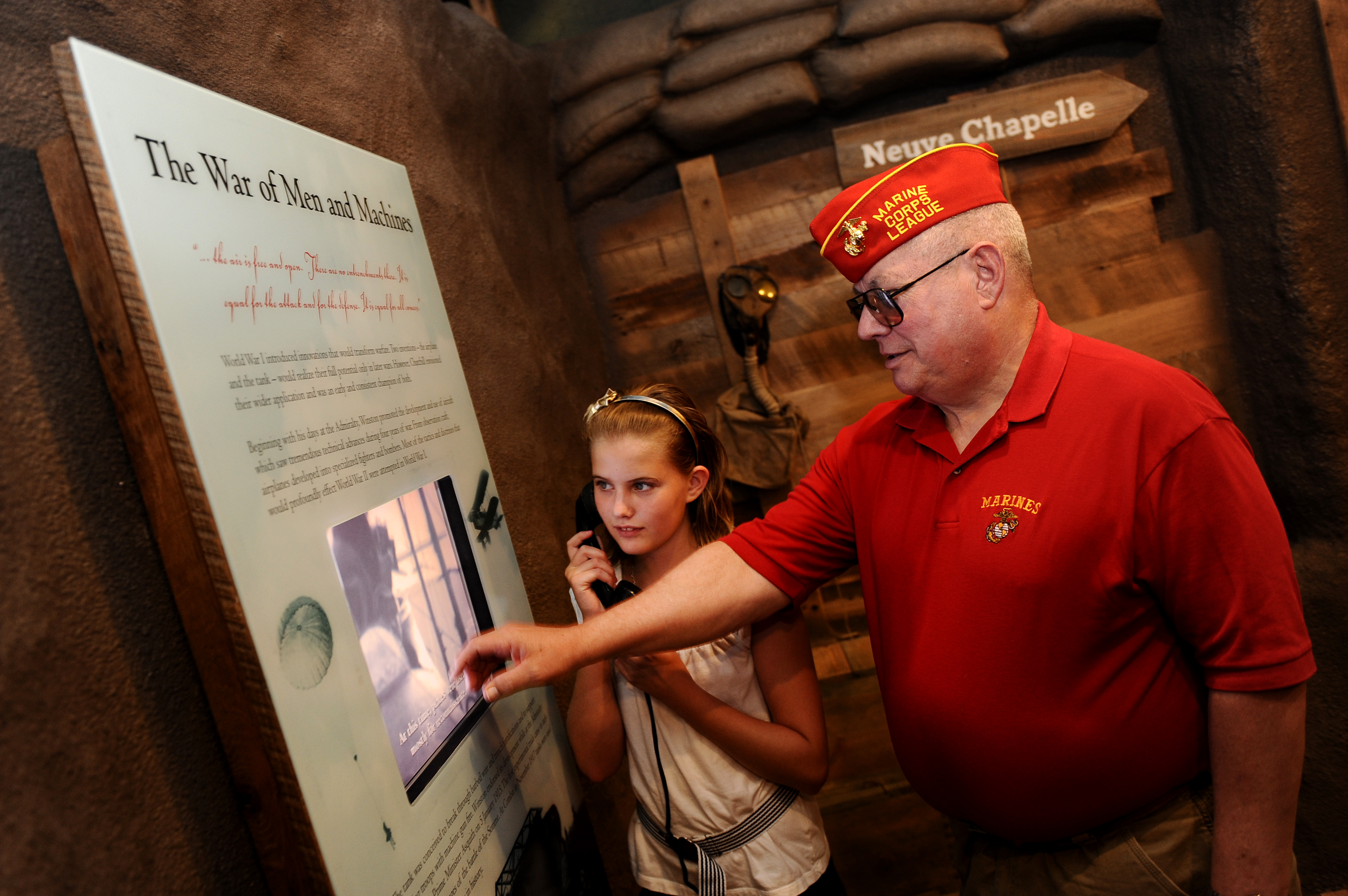 Insdie the National Churchill Museum